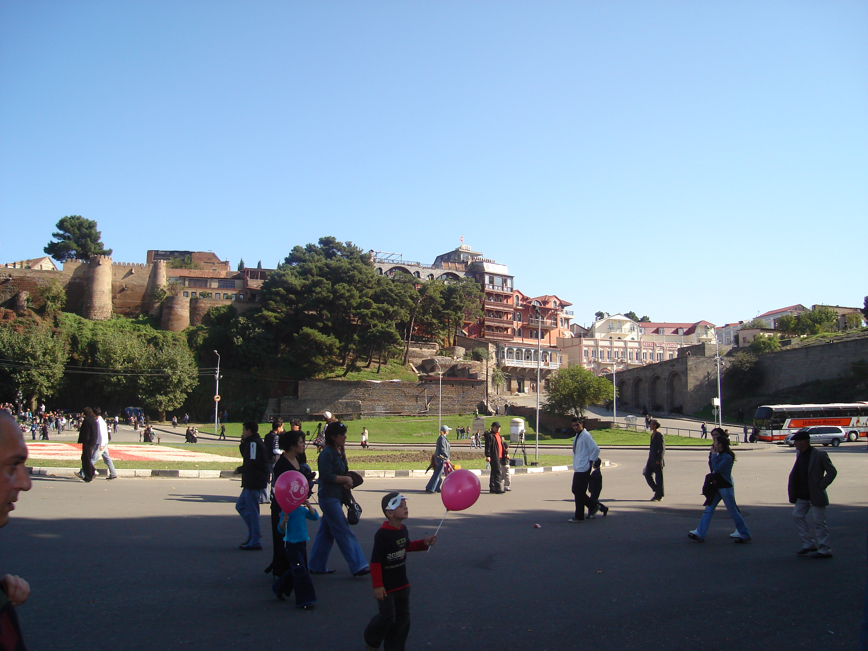 Europe Square, Tbilisi, during the October 2006 Tbilisoba festival